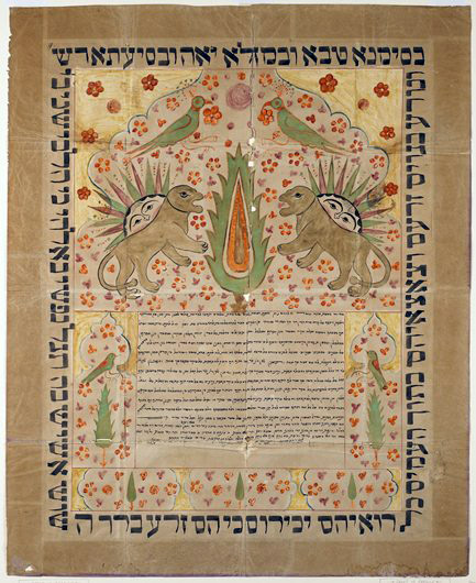 Ancient Ketubah (marriage certificate) gained from Isfahan.